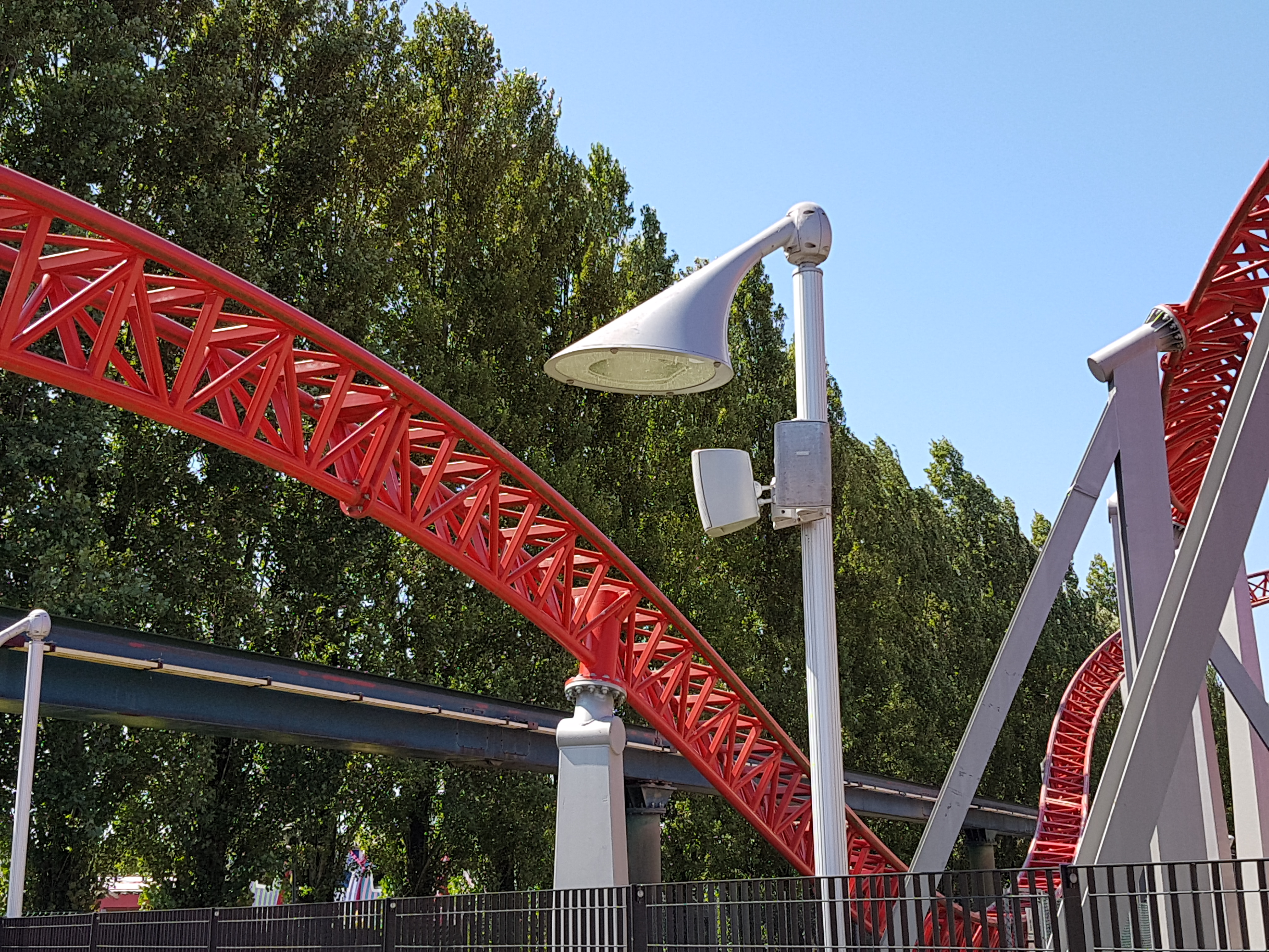 Final section of ISpeed in Mirabilandia